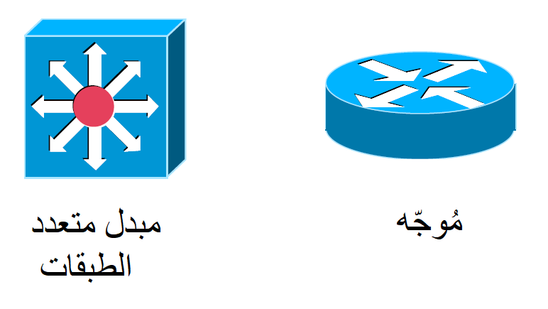 Devices that are used for Routing.